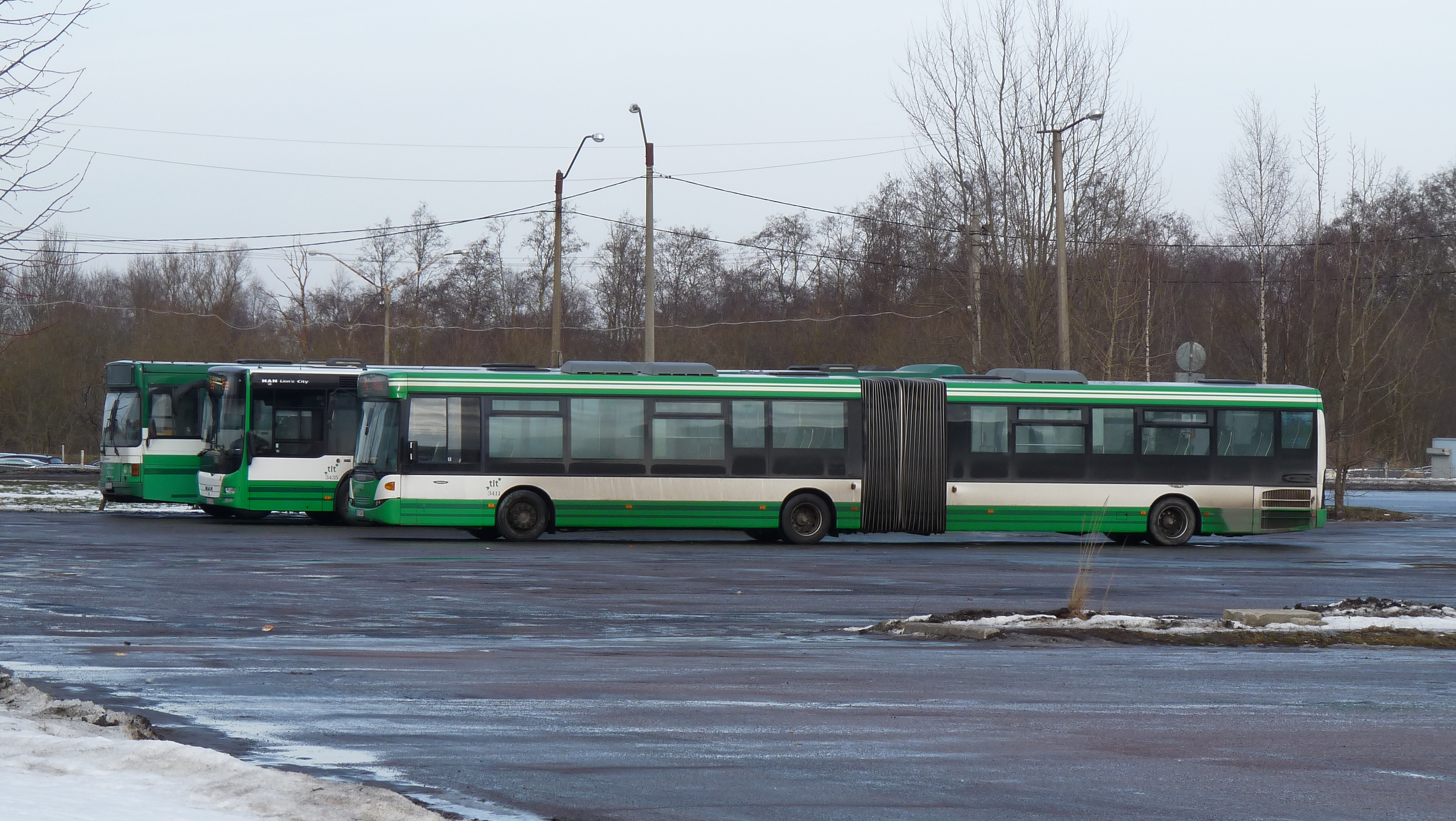 Priisle bus station